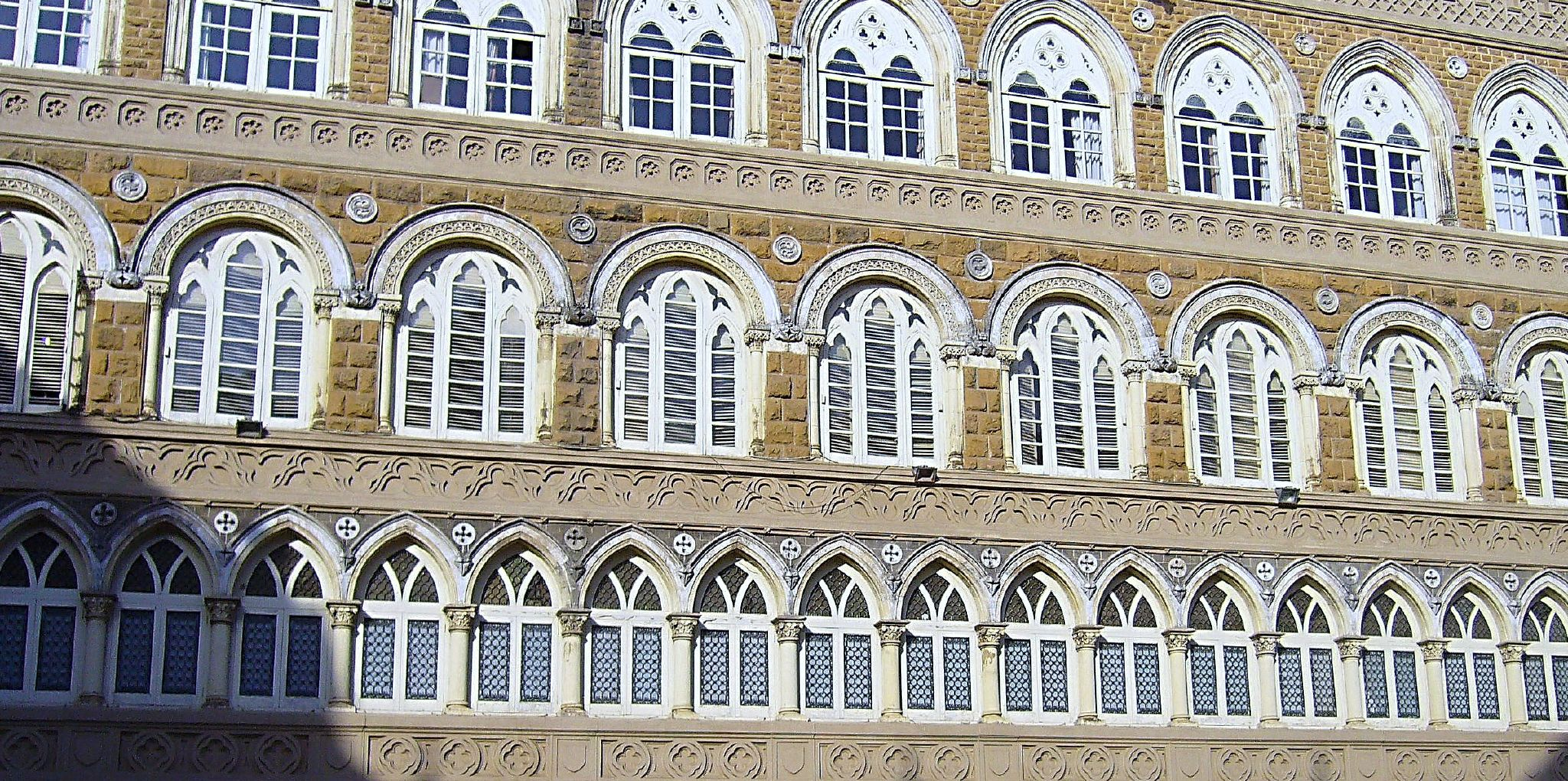 St. Xavier's College in Mumbai is built in the Indo-Gothic style of architecture, and has been recognized as a heritage structure by the Mumbai Heritage Conservation Committe. The row of rooms in the middle is where all the classes are held. The row at the bottom is the library.